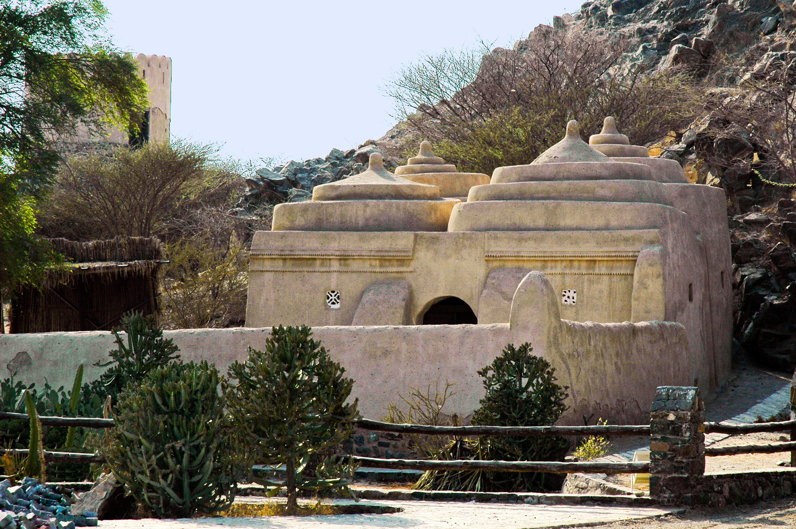 Al Badiyah Mosque, Fujairah, UAE